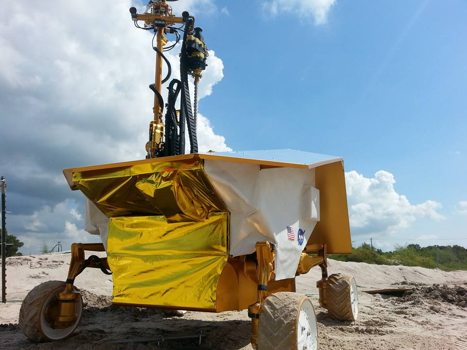 Prototype of the 'Resource Prospector" rover, a mission concept led by NASA of a rover that would perform a survey expedition on a polar region of the Moon for volatiles such as water and hydrogen for exploitation and foster more affordable and sustainable human exploration to the Moon, Mars, and other Solar System bodies.